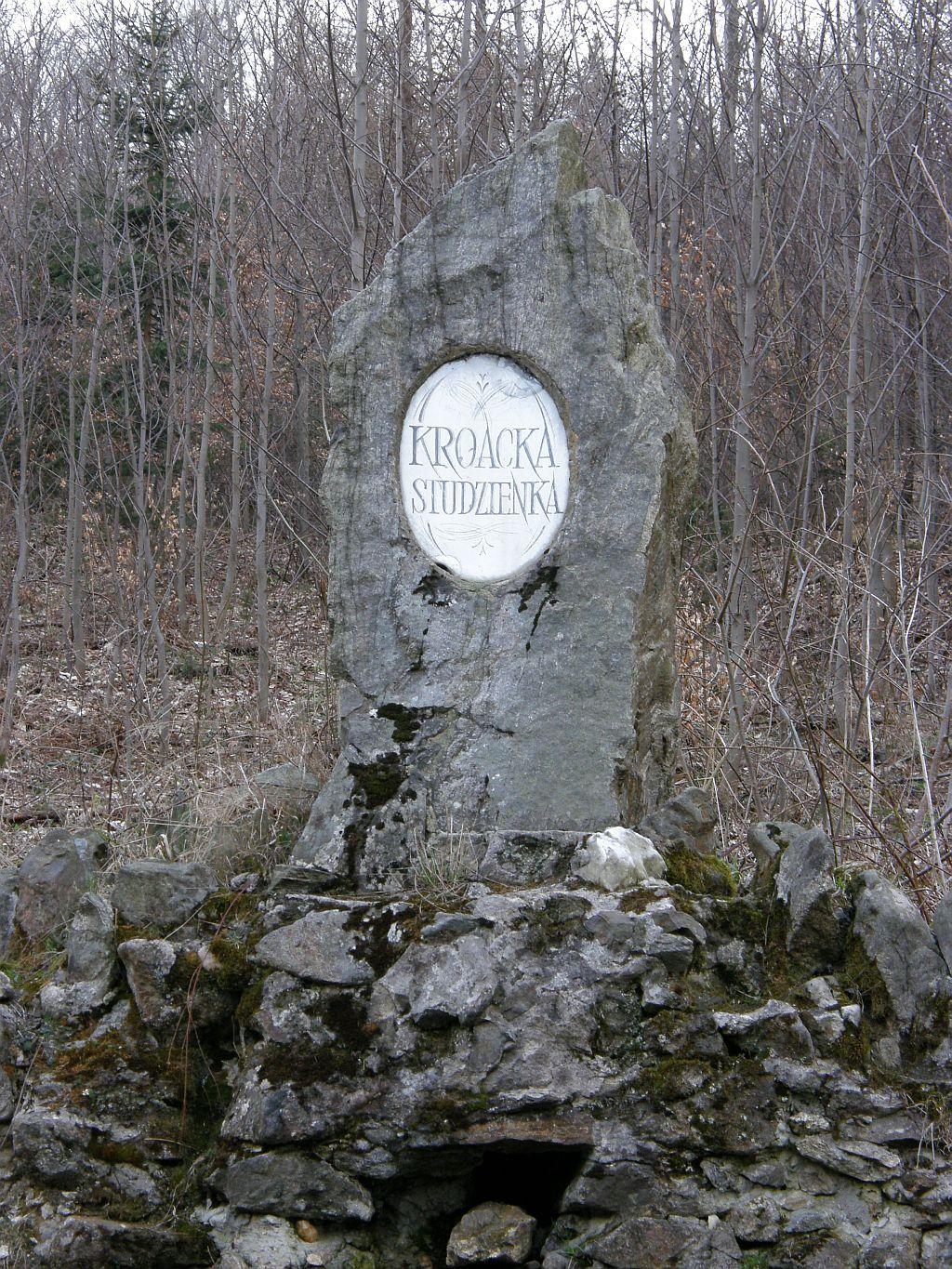 Croatian Well in Glinno (Poland)